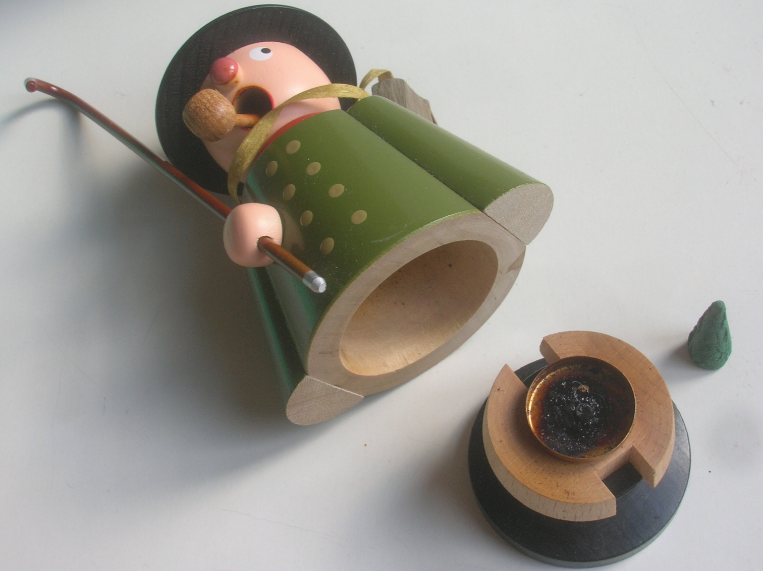 Räuchermännchen apart